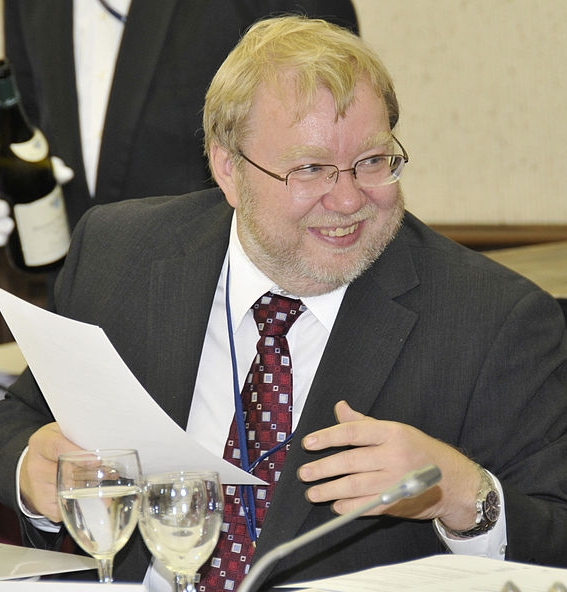 Mart Laar at EPP Summit September 2010